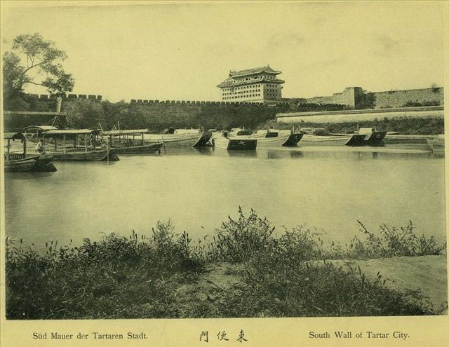 old photo from China 1900-1903, see the file's name for detail.